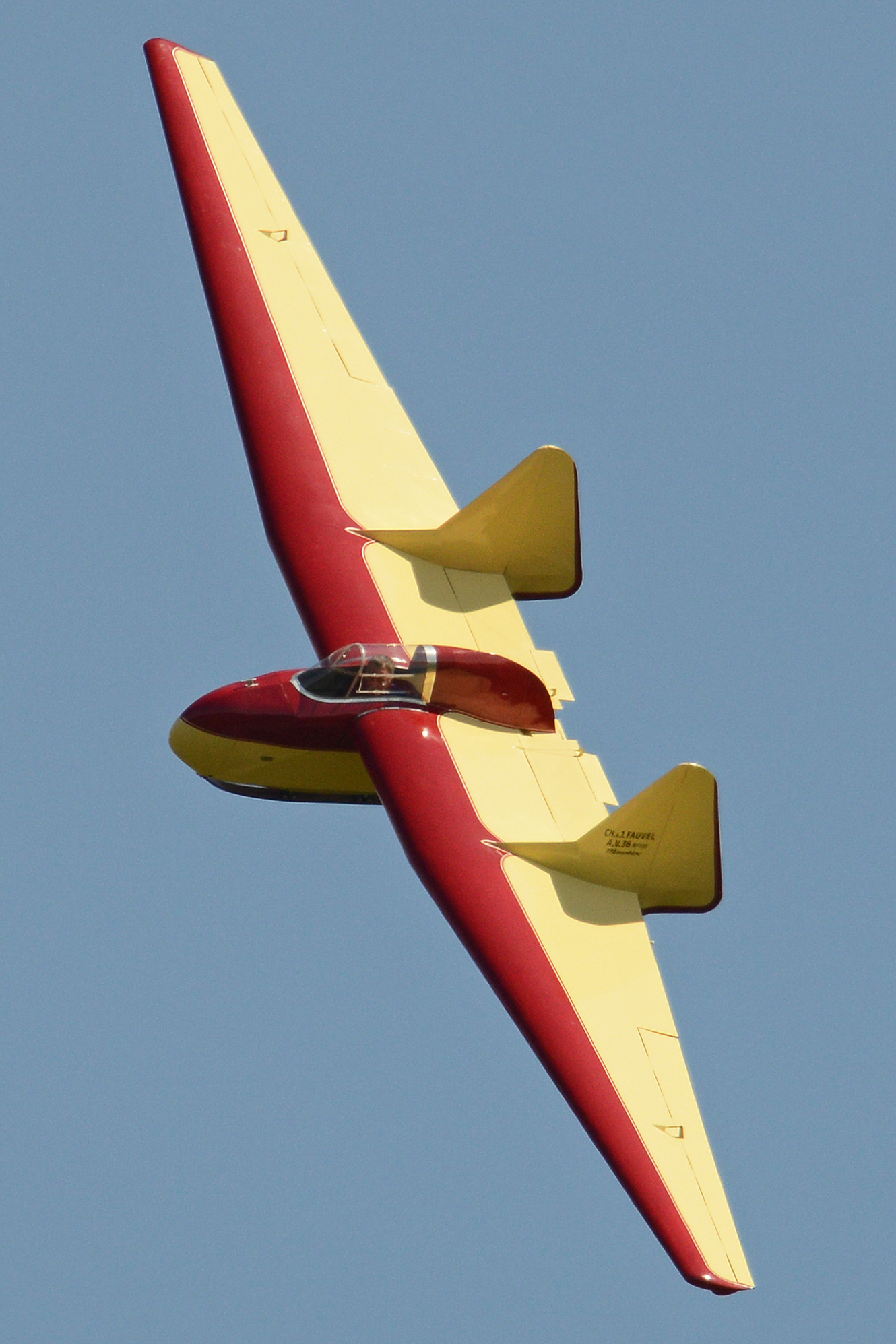 The amazing Fauvel tail-less glider, a type which first flew in 1951 and was designed to be easily transportable. Here is c/n 133 seen displaying at the Shuttleworth 2016 Season Premier Airshow, Old Warden, Bedfordshire, UK.